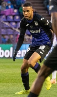 Real Valladolid - C. D. Leganés, 14th fixture of the 2018-19 La Liga, December 1, 2018.